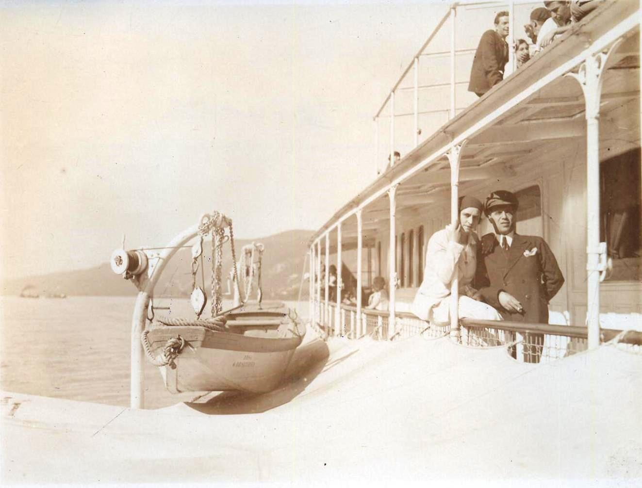 Venedikt Bobchevski and Gusla Choir "Saturnus" steamboat, 10.08.1933.